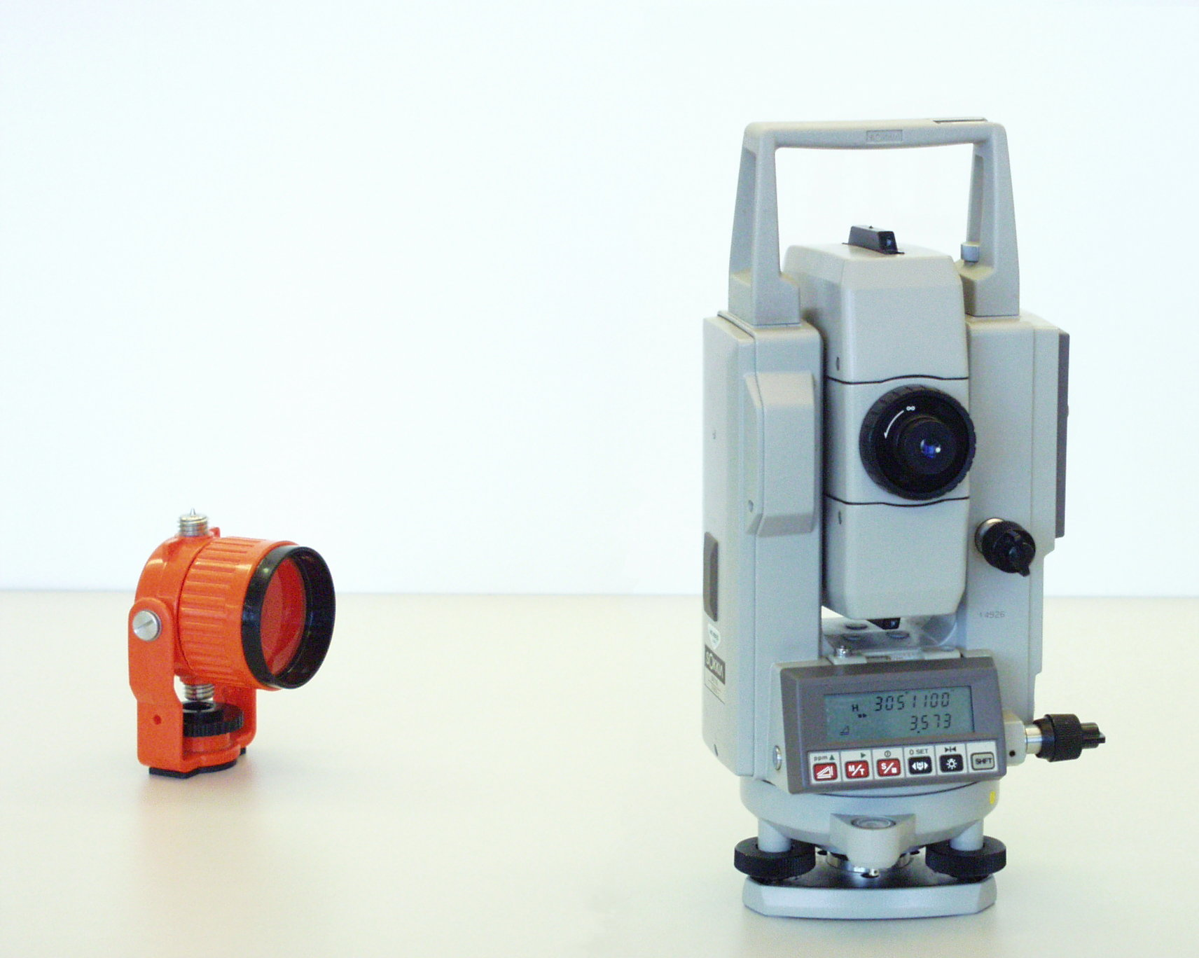 Total station and surveying prism (Sokkia)